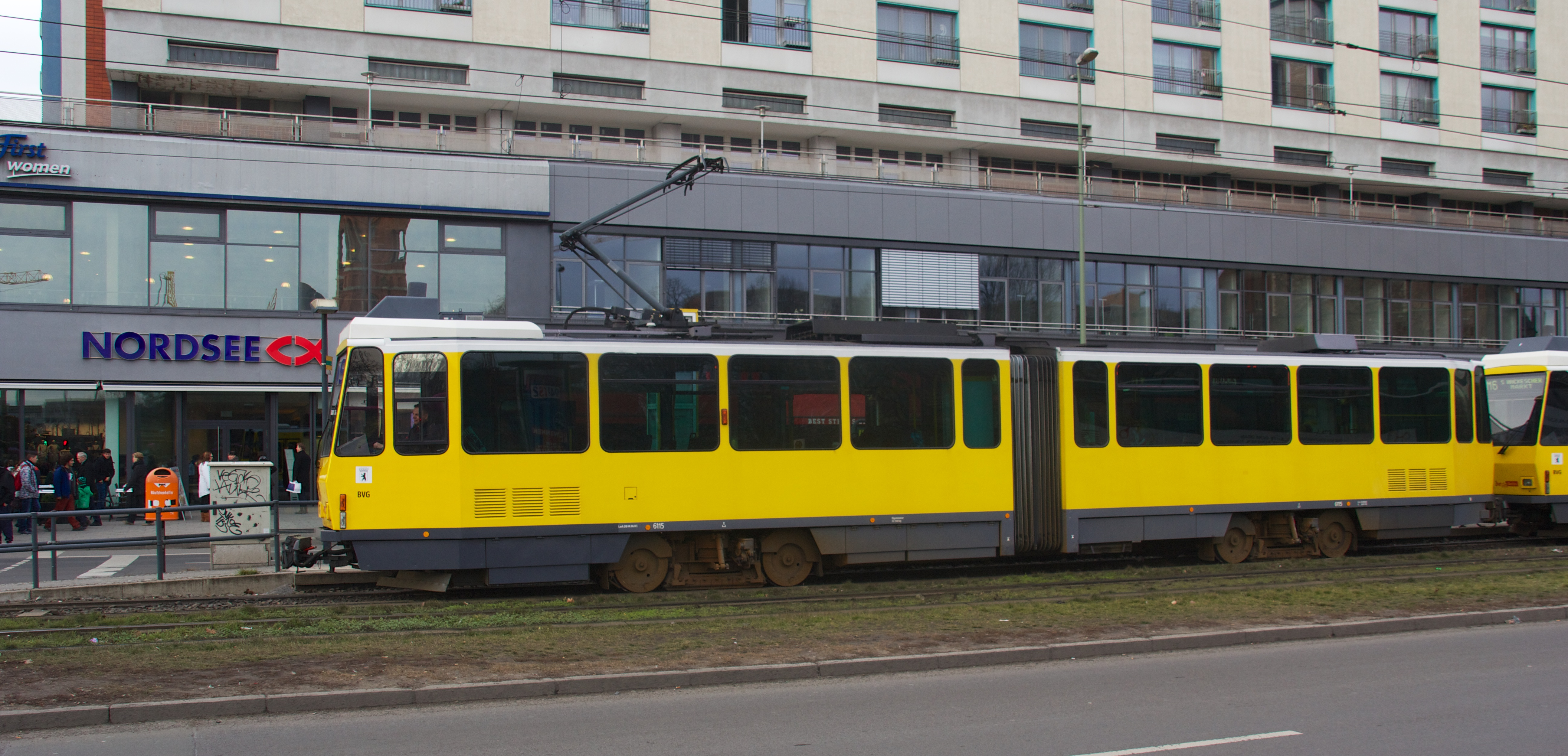 Tram in Berlin.